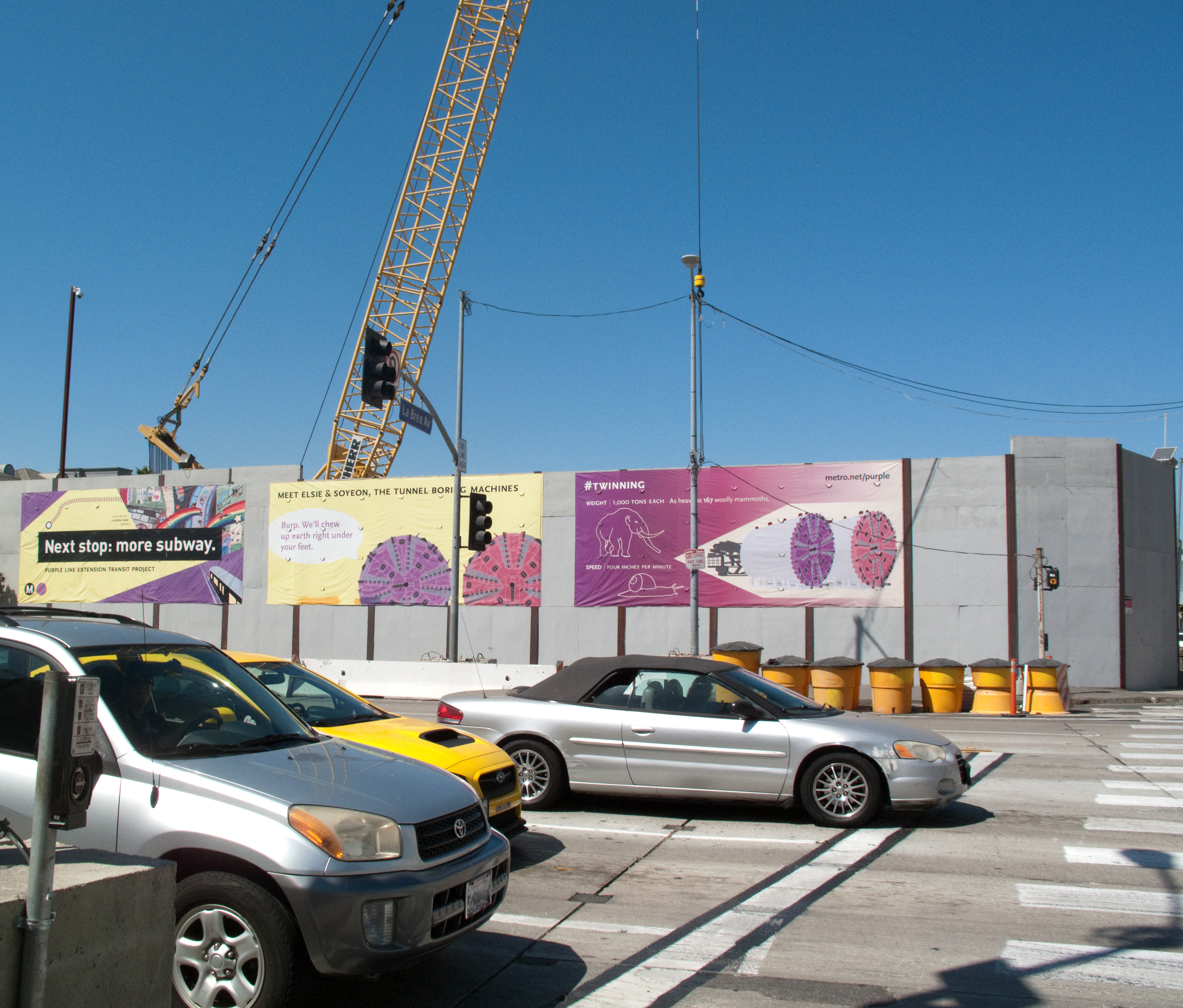 Construction of a Purple Line subway station on the northwest corner of Wilshire and La Brea, Los Angeles.